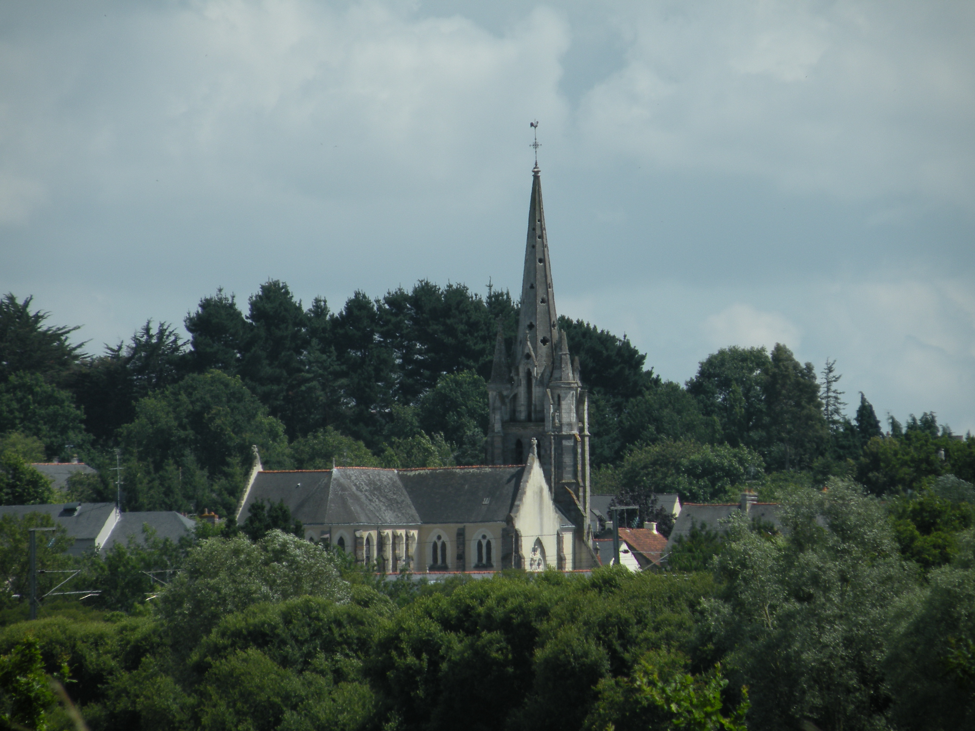 Church of Saint-Nicolas-de-Redon